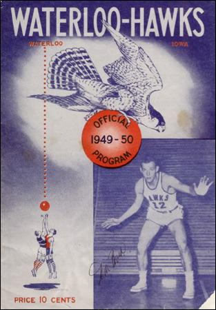 An autographed program from the Waterloo Hawks 1949-50 season. On the cover is pictured Donald Boven, who played for the team that year.